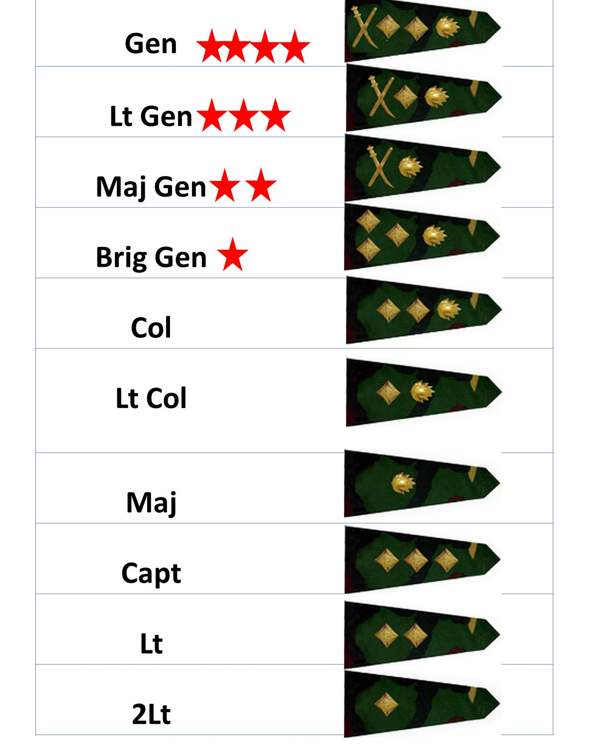 Badges Of Rank of Bd Army Officers